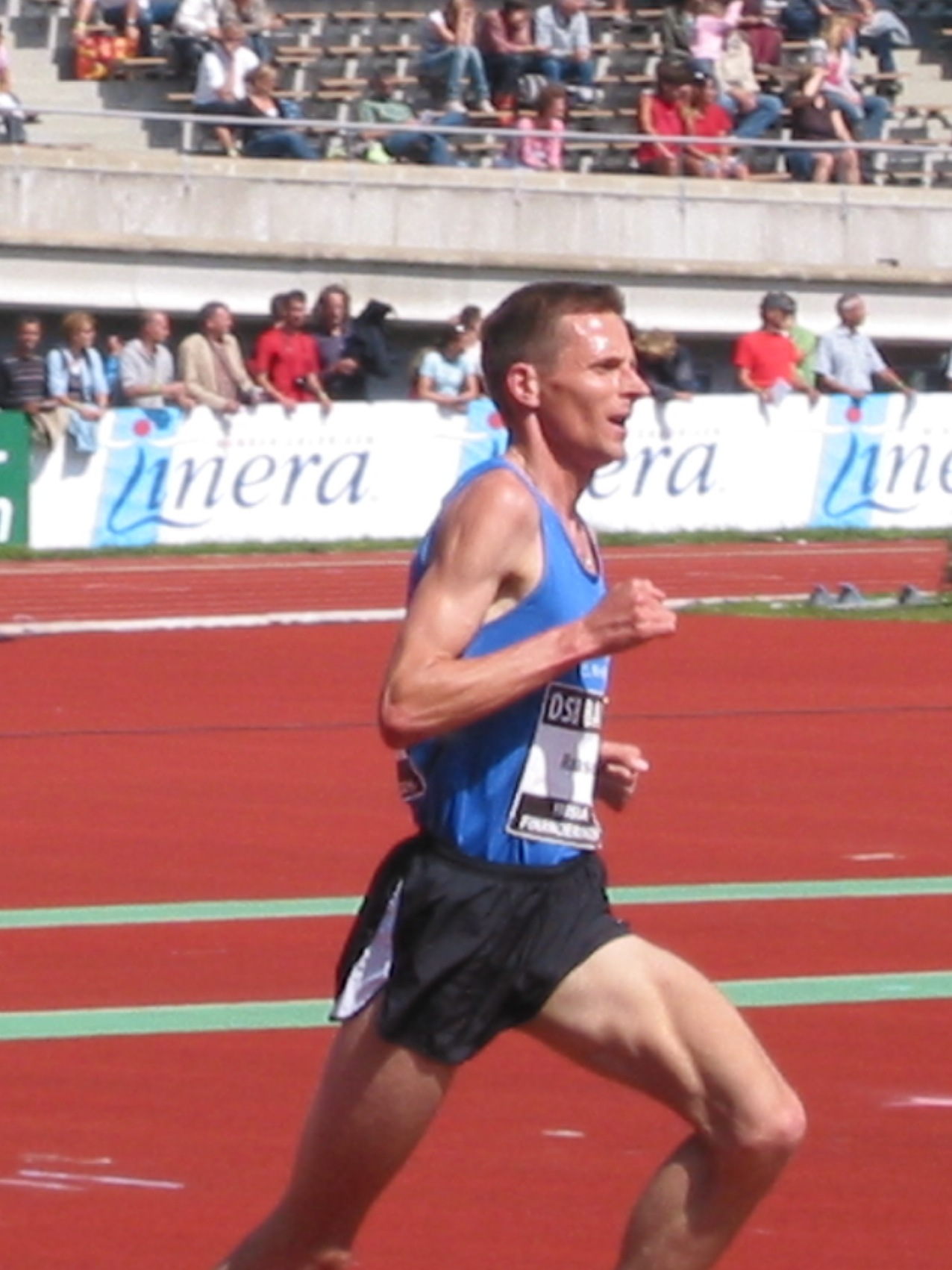 Kamiel Maase, during 5000m, Dutch Championship